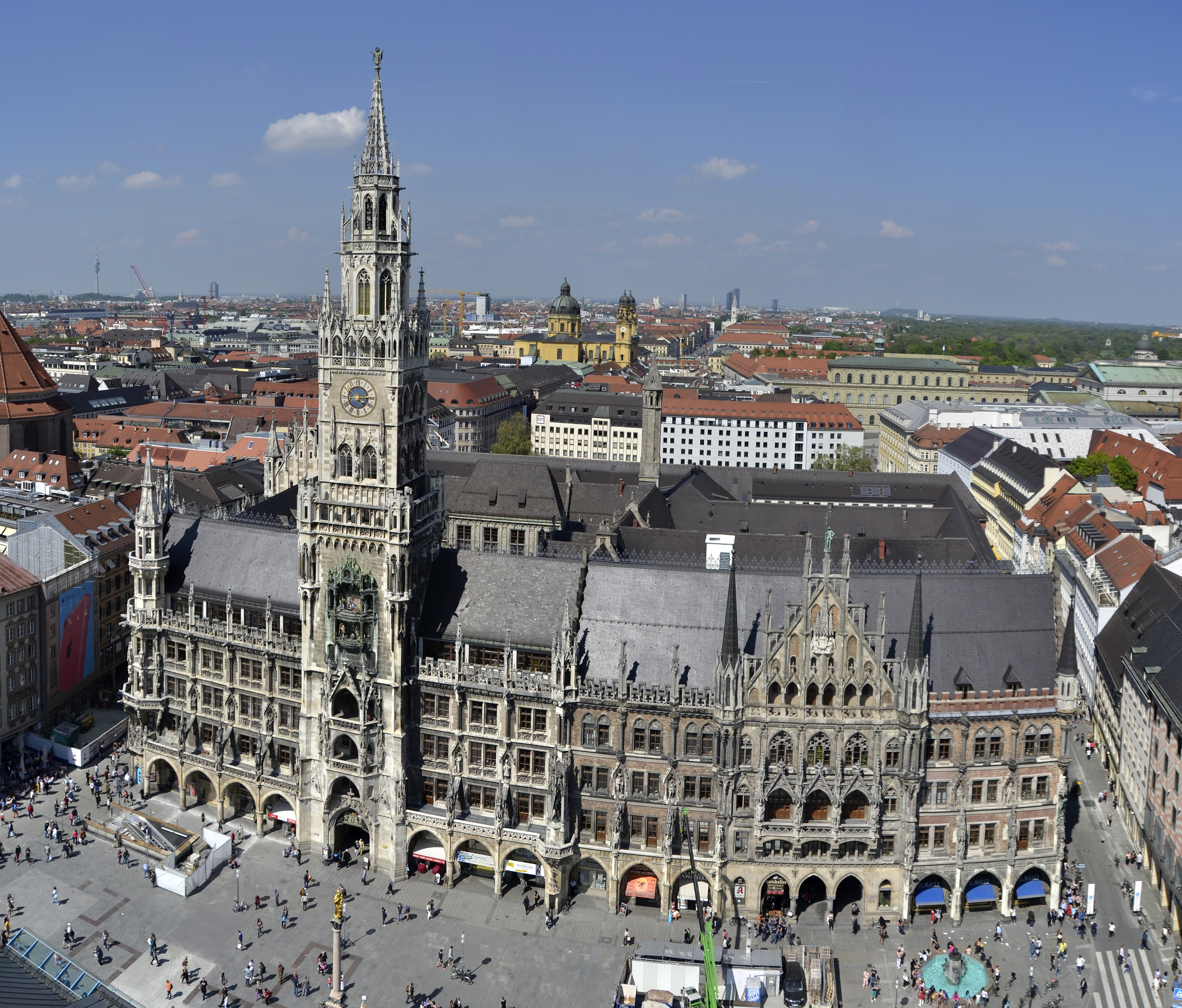 The Neues Rathaus of Munich, as seen from the top of the church tower of Alter Peter.